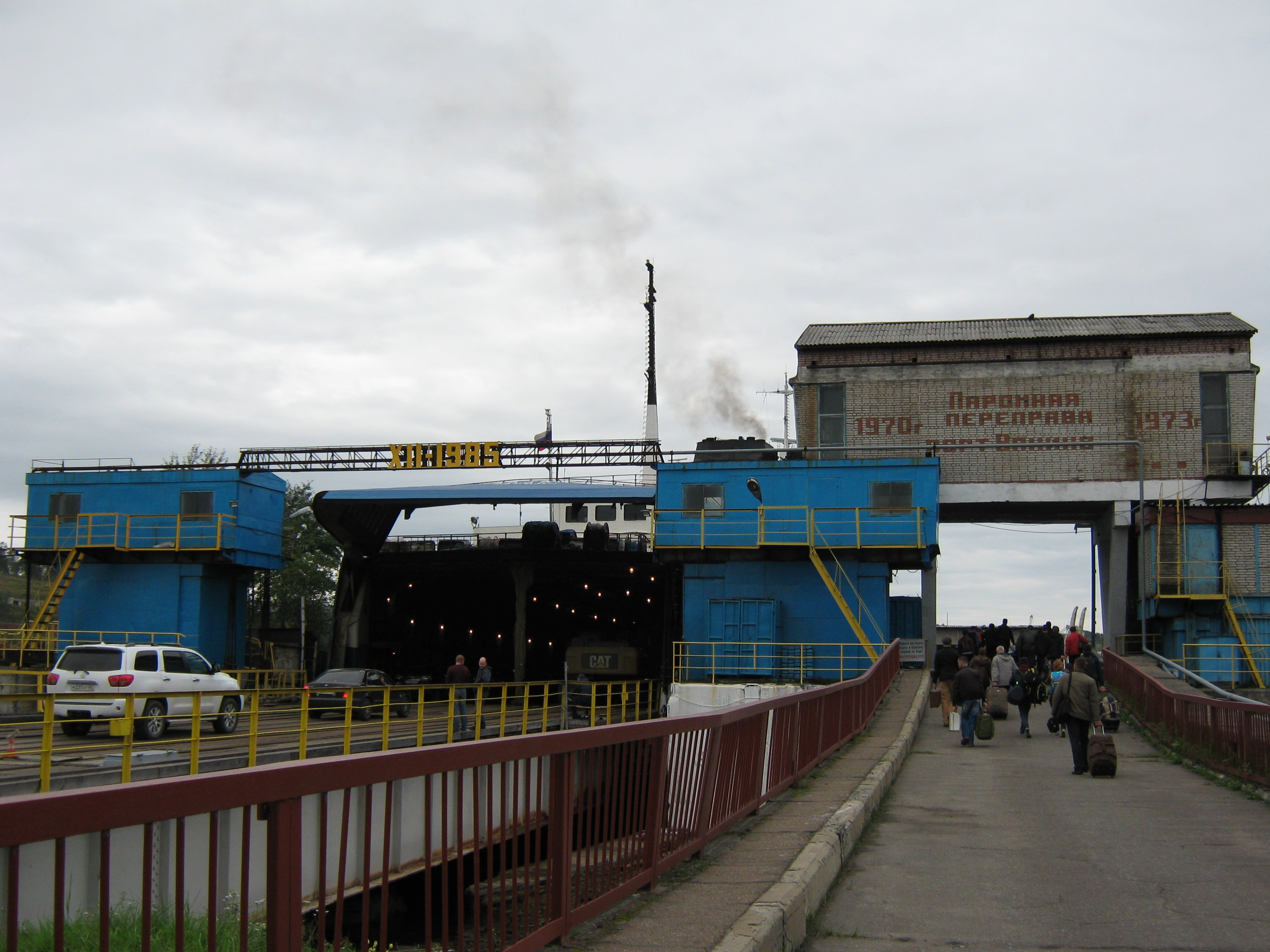 Boarding to the ferry Sakhalin-9 of the ferry route Vanino—Kholmsk 9 September 2016 in the port of Vanino. Cars, trucks and construction vehicles are boarding through the stern of the ferry (left on the image). Passengers are boarding from the side of the ferry (right on the image).